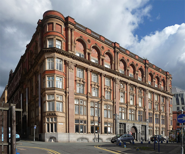 Built for the Co-operative Wholesale Society by F.E.L. Harris 1905-09. Brick, stone and giant granite pilasters, and a blind arcade along the top storey. The top is a bit abrupt because, as Pevsner points out, "of the loss of the corner domes". Grade II listed.